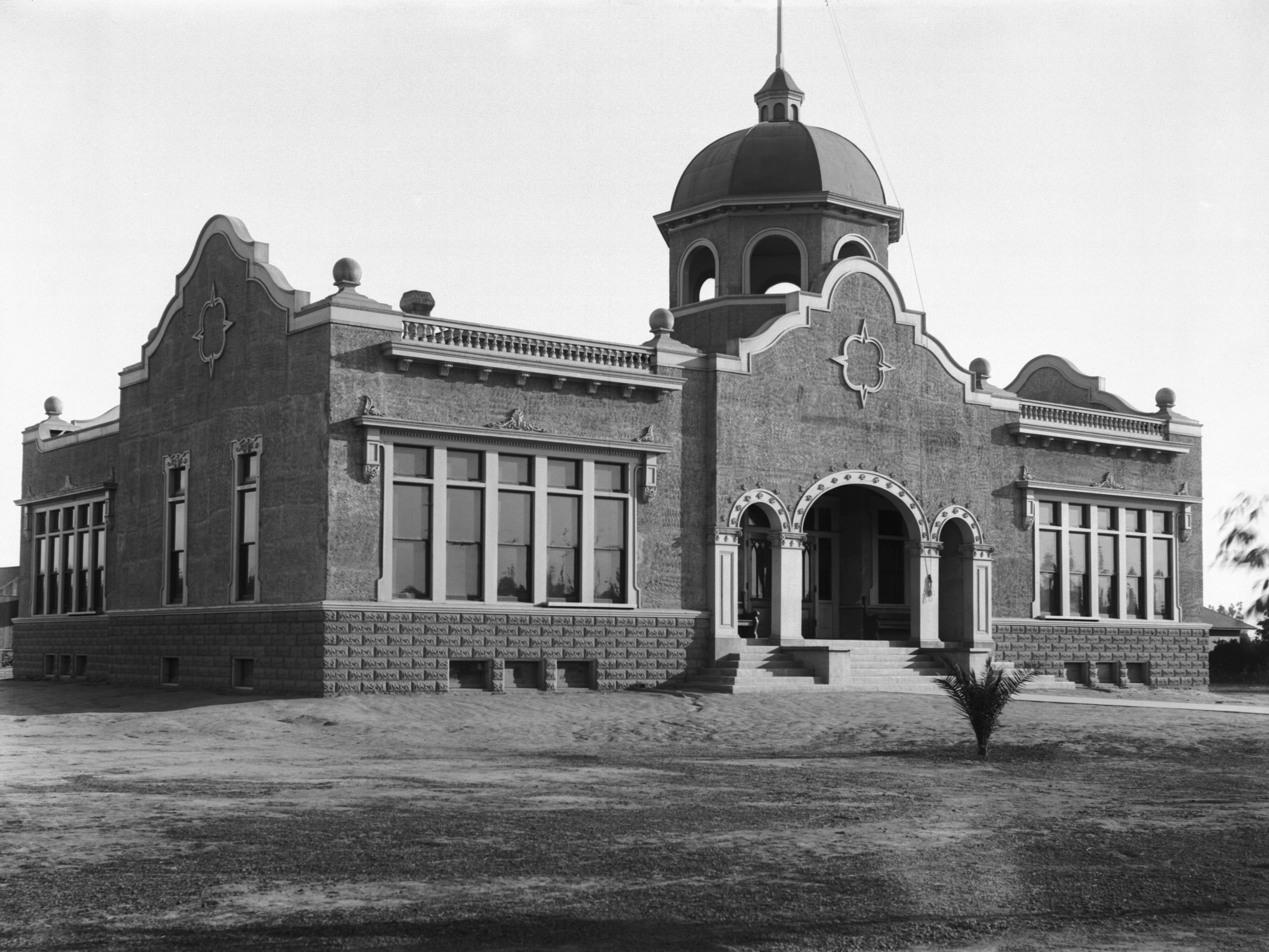 Front exterior of Anaheim High School, ca.1900 Photograph of the front exterior of Anaheim High School, ca.1900. The Mission-revival style school has a stone-block foundation. There is a main floor and basement. Three arched openings form the main entry. An octagonal cupola tops the school. One small palm grows in the front school yard. A balustrade runs around the perimeter of the roof. Call number: CHS-2815 Filename: CHS-2815 Coverage date: circa 1900 Part of collection: California Historical Society Collection, 1860-1960 Format: glass plate negatives Type: images Geographic subject (city or populated place): Anaheim; Anaheim Repository name: USC Libraries Special Collections Accession number: 2815 Microfiche number: 1-18-19 Archival file: chs_Volume60/CHS-2815.tiff Part of subcollection: Title Insurance and Trust, and C.C. Pierce Photography Collection, 1860-1960 Repository address: Doheny Memorial Library, Los Angeles, CA 90089-0189 Geographic subject (country): USA Format (aacr2): 2 photographs : glass photonegative, photoprint, b&w ; 17 x 22 cm., 13 x 18 cm. Rights: Digitally reproduced by the USC Digital Library; From the California Historical Society Collection at the University of Southern California Subject (adlf): educational facilities Project: USC Repository Contributing entity: California Historical Society Date created: circa 1900 Publisher (of the digital version): University of Southern California. Libraries Format (aat): photographic prints; photographs Geographic subject (state): California Subject (file heading): Orange County -- Anaheim Legacy record ID: chs-m7694; USC-1-1-1-7824 Access conditions: Send requests to address or e-mail given. Phone (213) 821-2366; fax (213) 740-2343. Geographic subject (county): Orange Subject (lcsh): Schools; Buildings Subject: Anaheim School